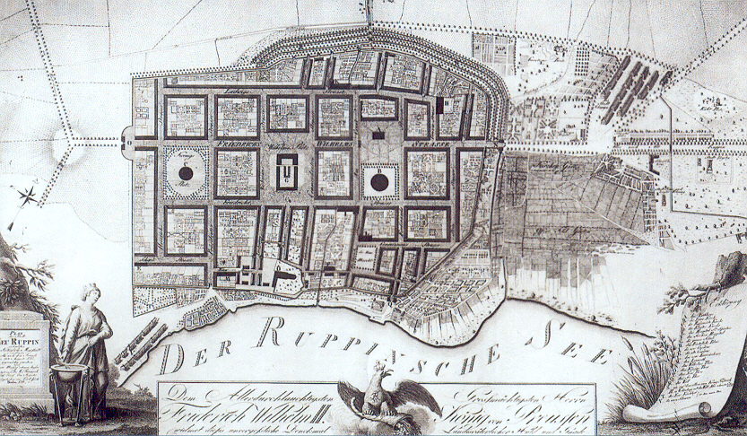 map of Neuruppin, Brandenburg, Germany